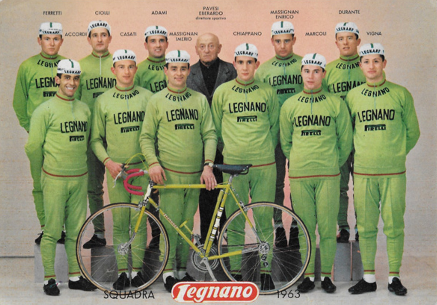 Legnano cycling team 1963 postcard